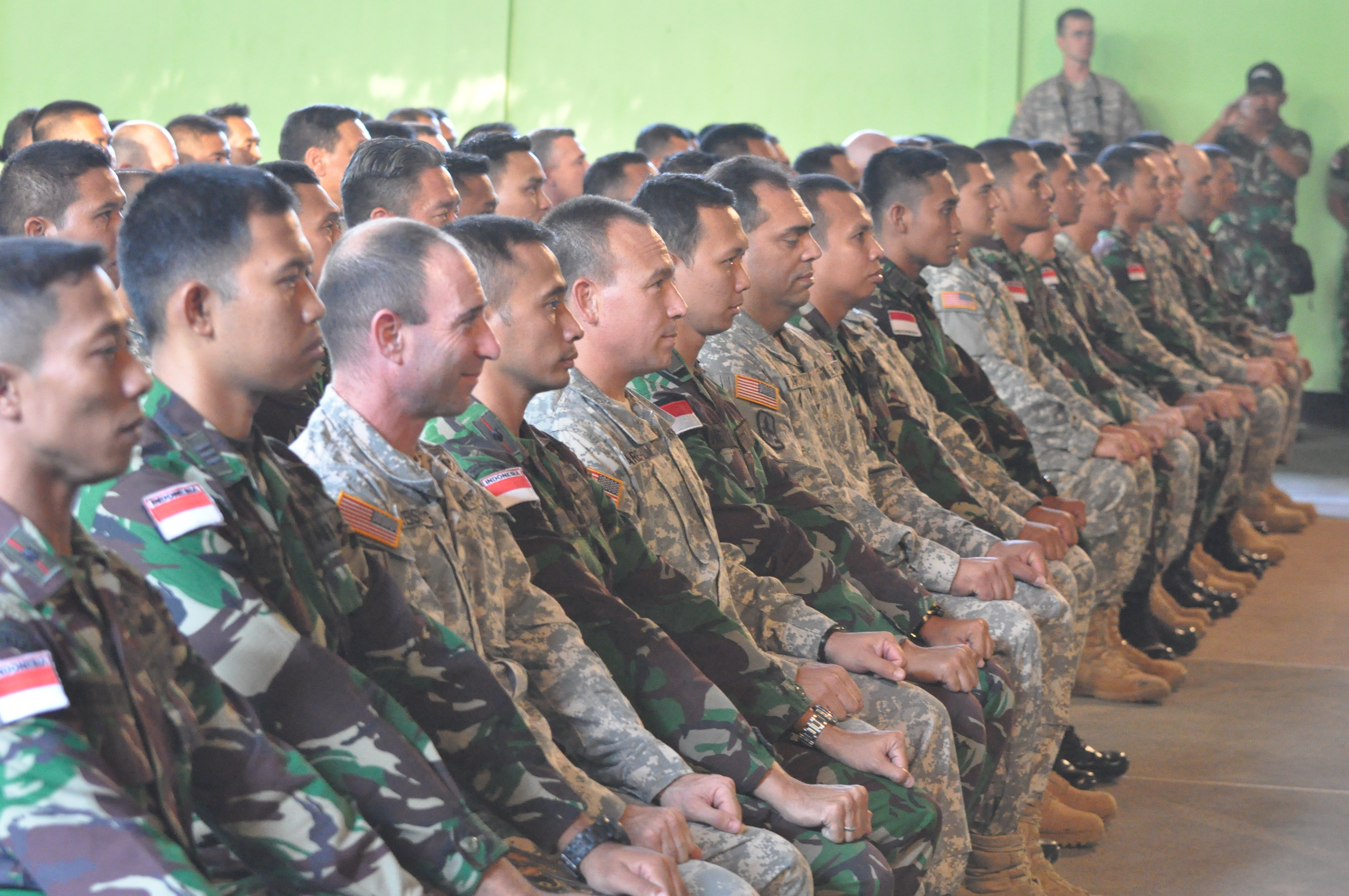 Hawaii Army National Guardsmen and Tentara Nasional Indonesia (Indonesia armed forces) soldiers attend the closing ceremonies of the command post exercise portion of Garuda Shield, Sept. 11, 2014, in Dodiklatpur, Indonesia. Garuda Shield is a bilateral exercise that focuses on tactical interoperability, and is sponsored by U.S. Army Pacific (USARPAC) and hosted by TNI.